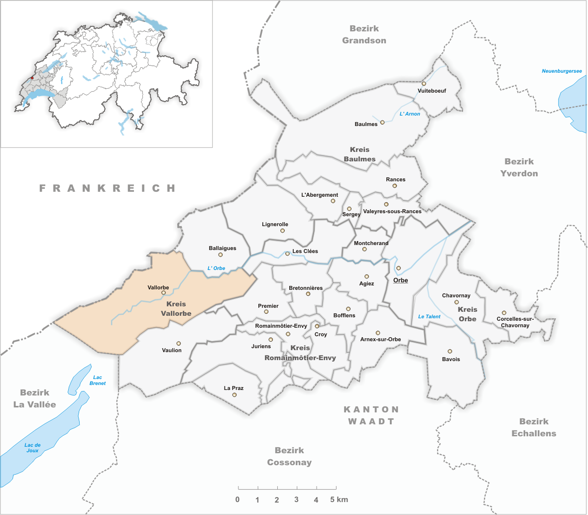 Municipality Vallorbe